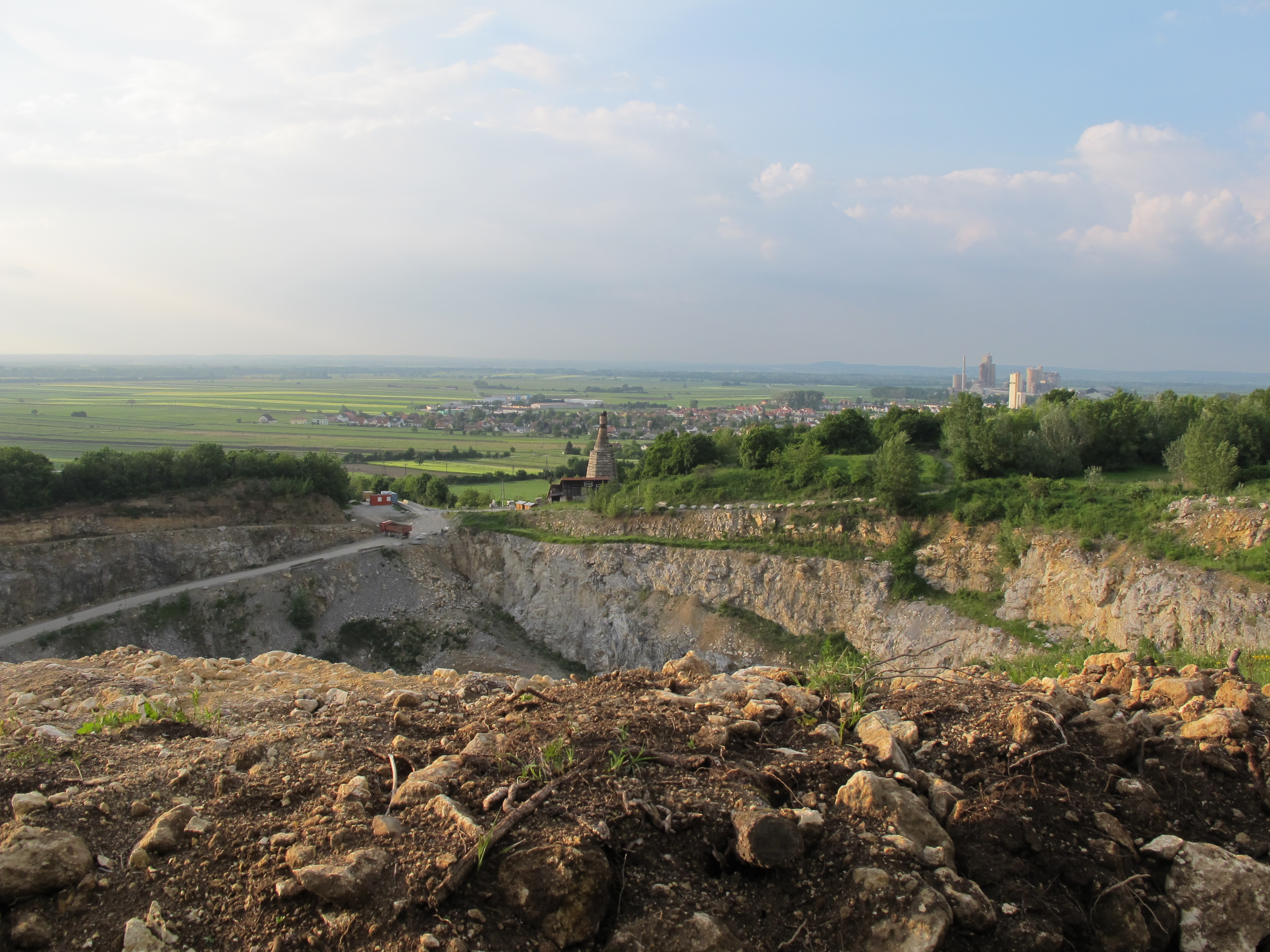 Cava near the village Mannersdorf am Leithagebirge / Lower Austria / Austria / EU. In the foreground is the quarry in the middle of the chimney of the kiln Baxa is visible in the background, the level of the village "Mannersdorf".